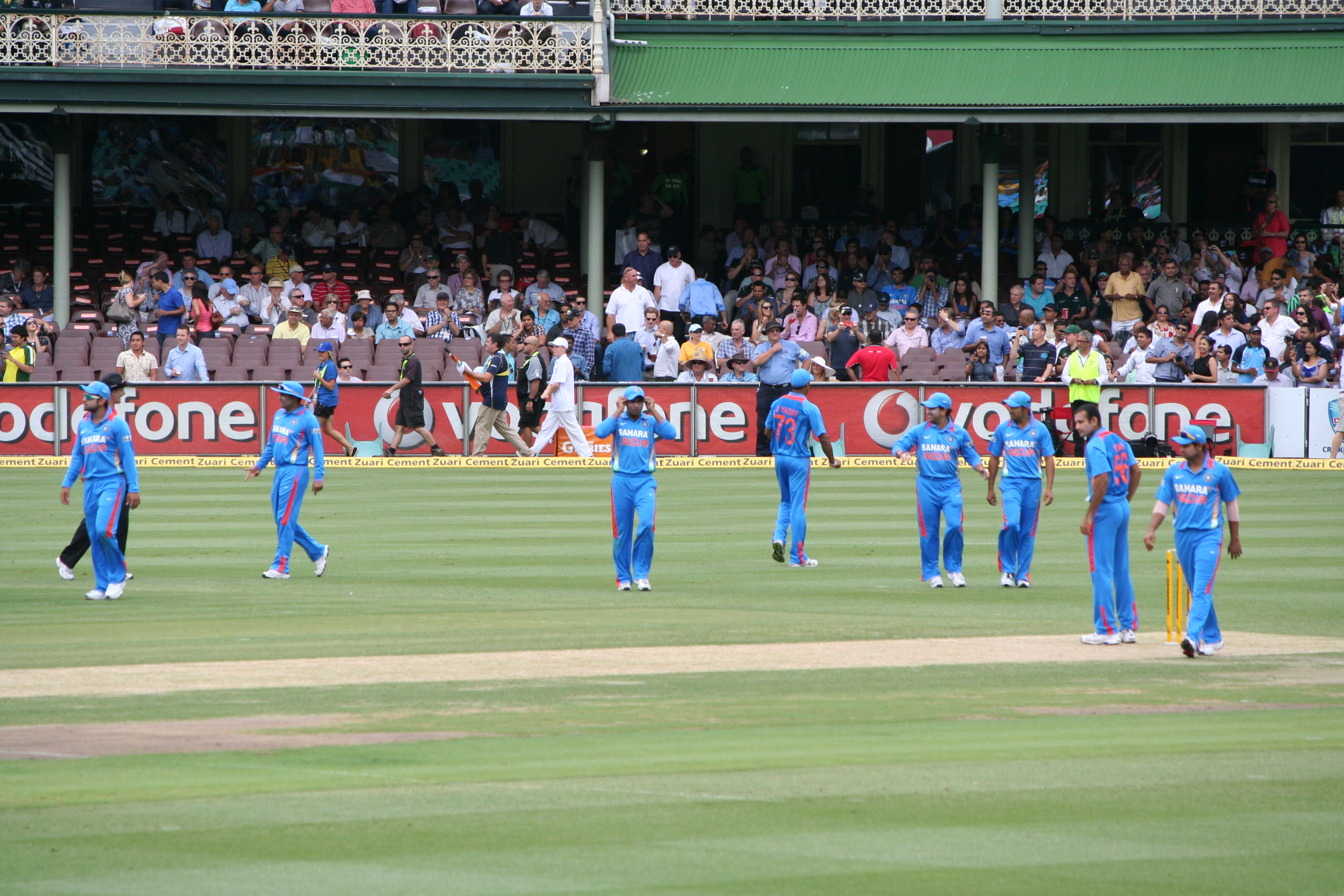 The Indian national cricket team against Australia at the Sydney Cricket Ground in the 2012 Commonwealth Bank series